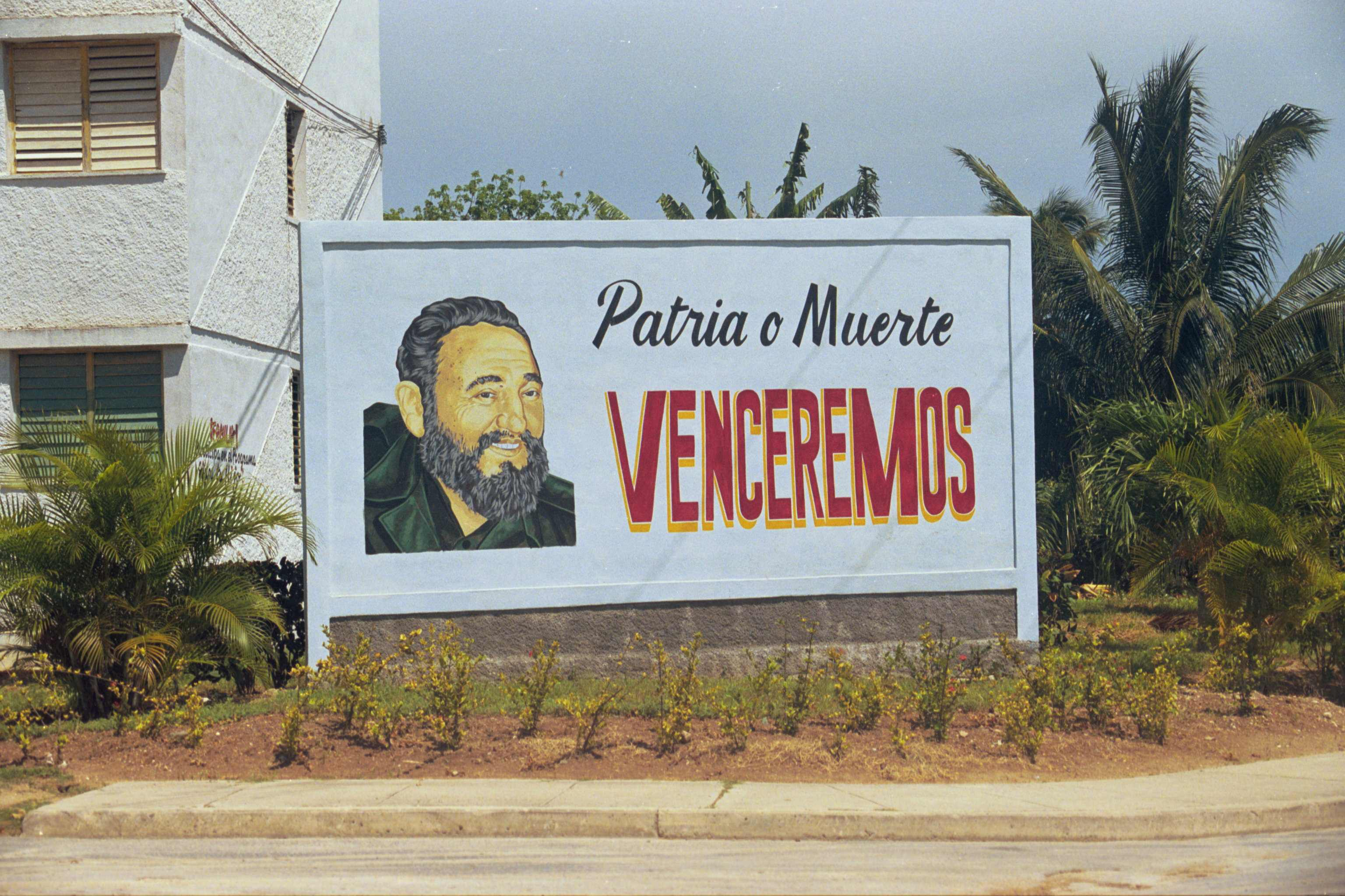 oficial propaganda poster in Cuba